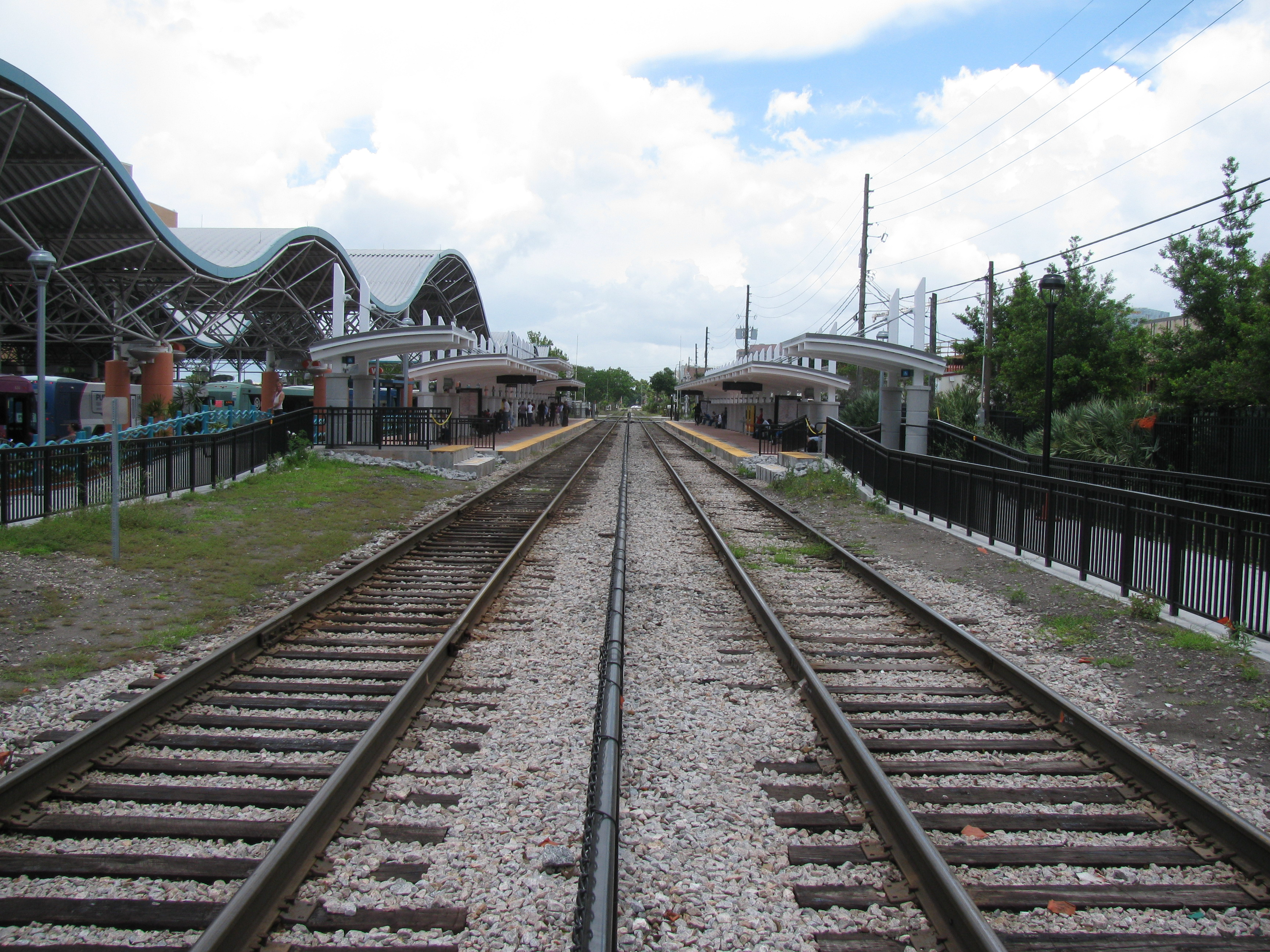 Lynx Central Station SunRail station platforms